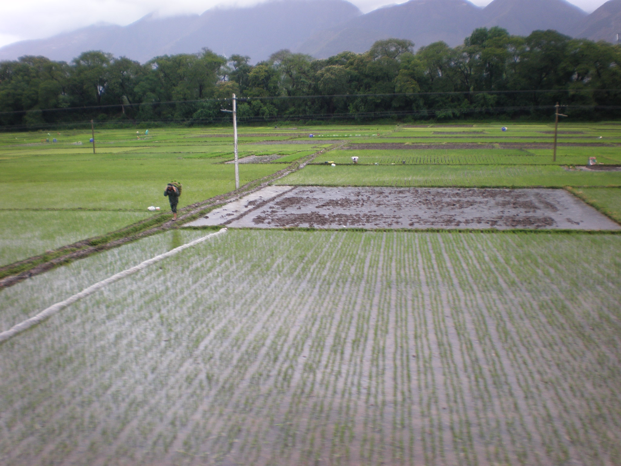 Paddy fields in Yunnan seen while traveling from Shangri-La (formerly Zhongdian) to Dali. Exact area unknown.